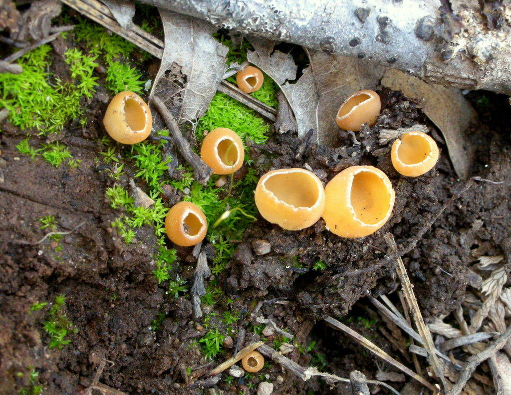 Fruit bodies of the ascomycete fungus Geopyxis vulcanalis Peck. Photographed in Evergreen Rd., Stanislaus National Forest, Tuolumne Co., California, USA.